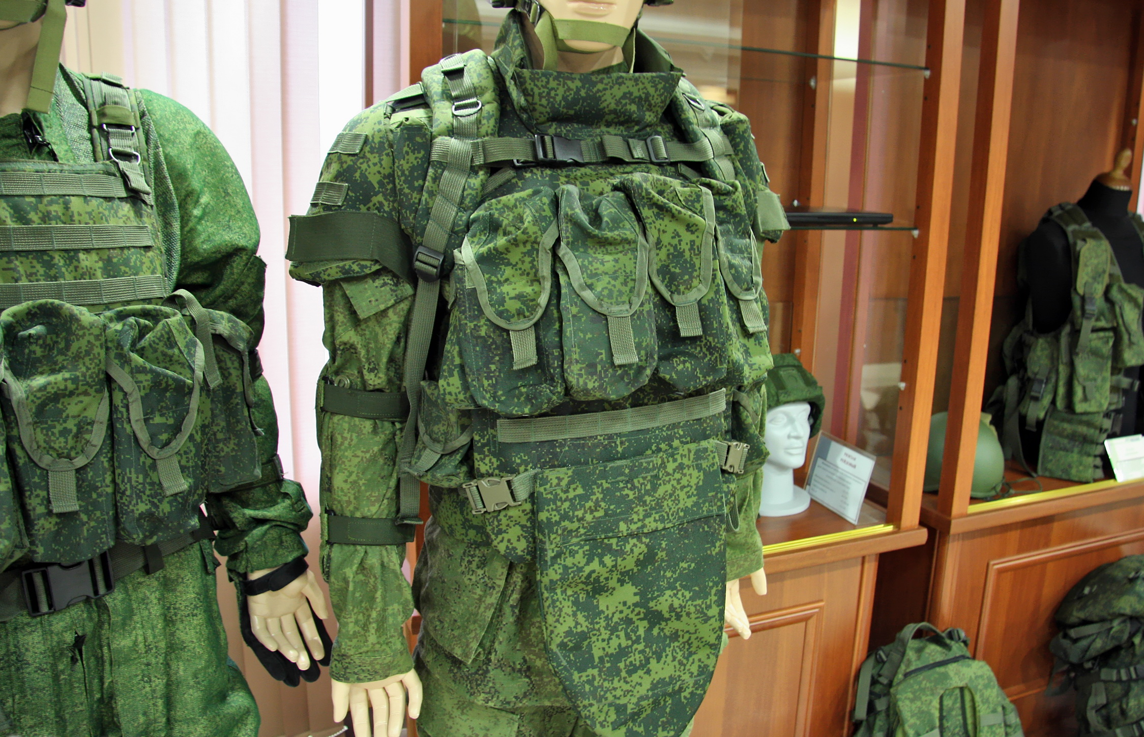 One of the variants of Barmitsa combat suit